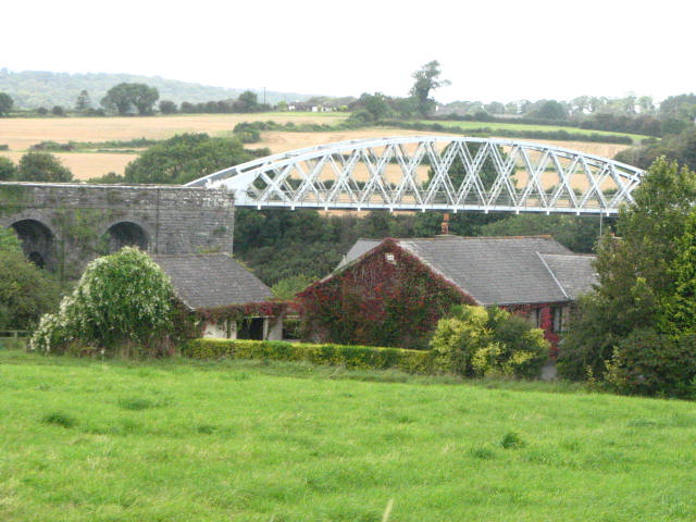 Railway bridge This is a fine metal bridge, in regular use for trains. Known as Jerpoint Halt or the Thomastown Viaduct on the Waterford Kilkenny line